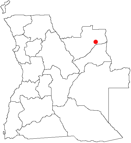 Lucapa, Angola Location Map; created with the GIMP. Made by User:Acntx.